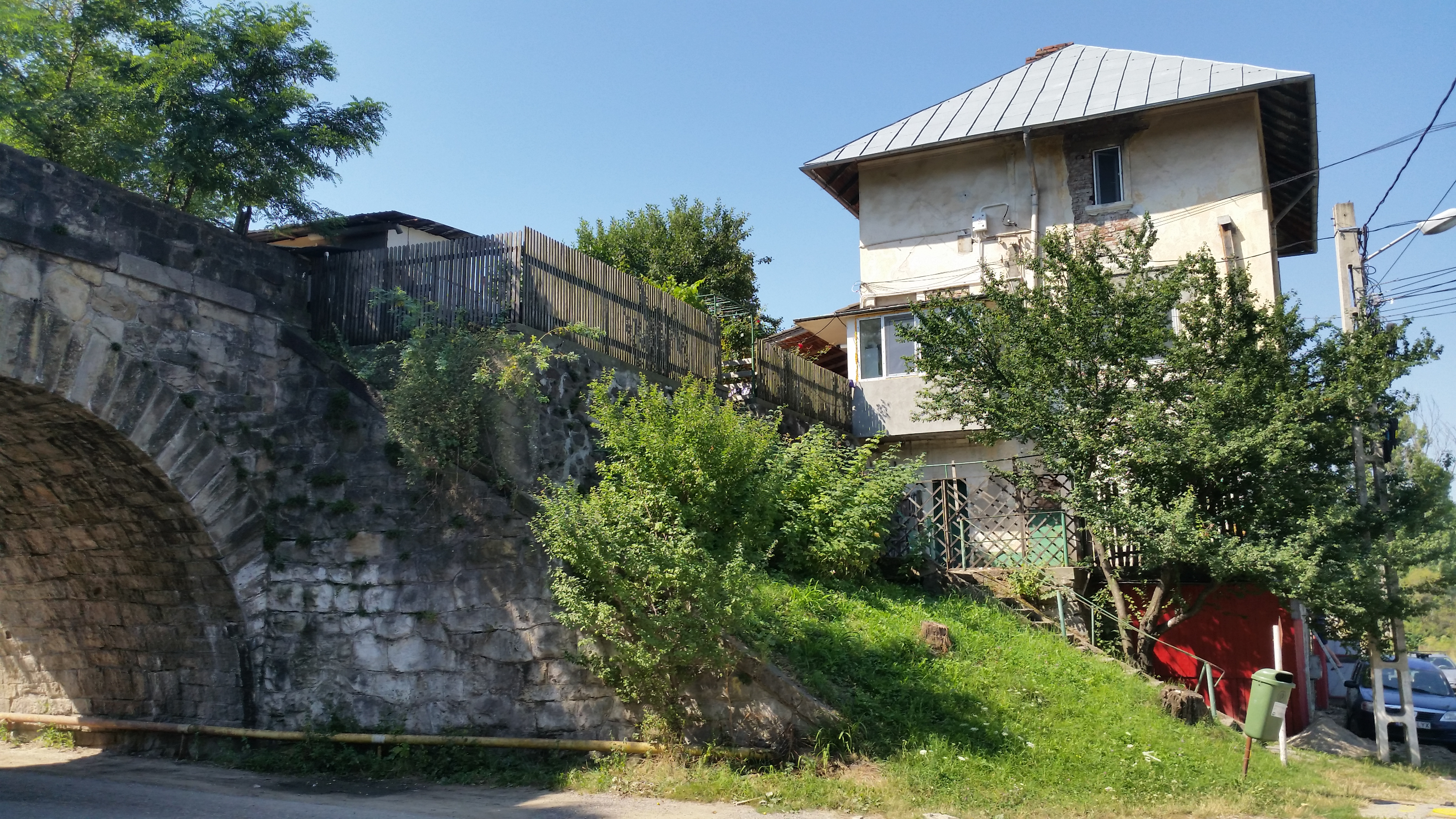 Former Telega (Doftana) train station, terminus of former Câmpina–Câmpinița–Telega railway in Romania.